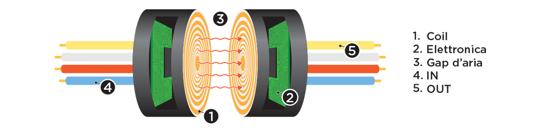 Illustration of a Slip Ring built with a wireless technology.